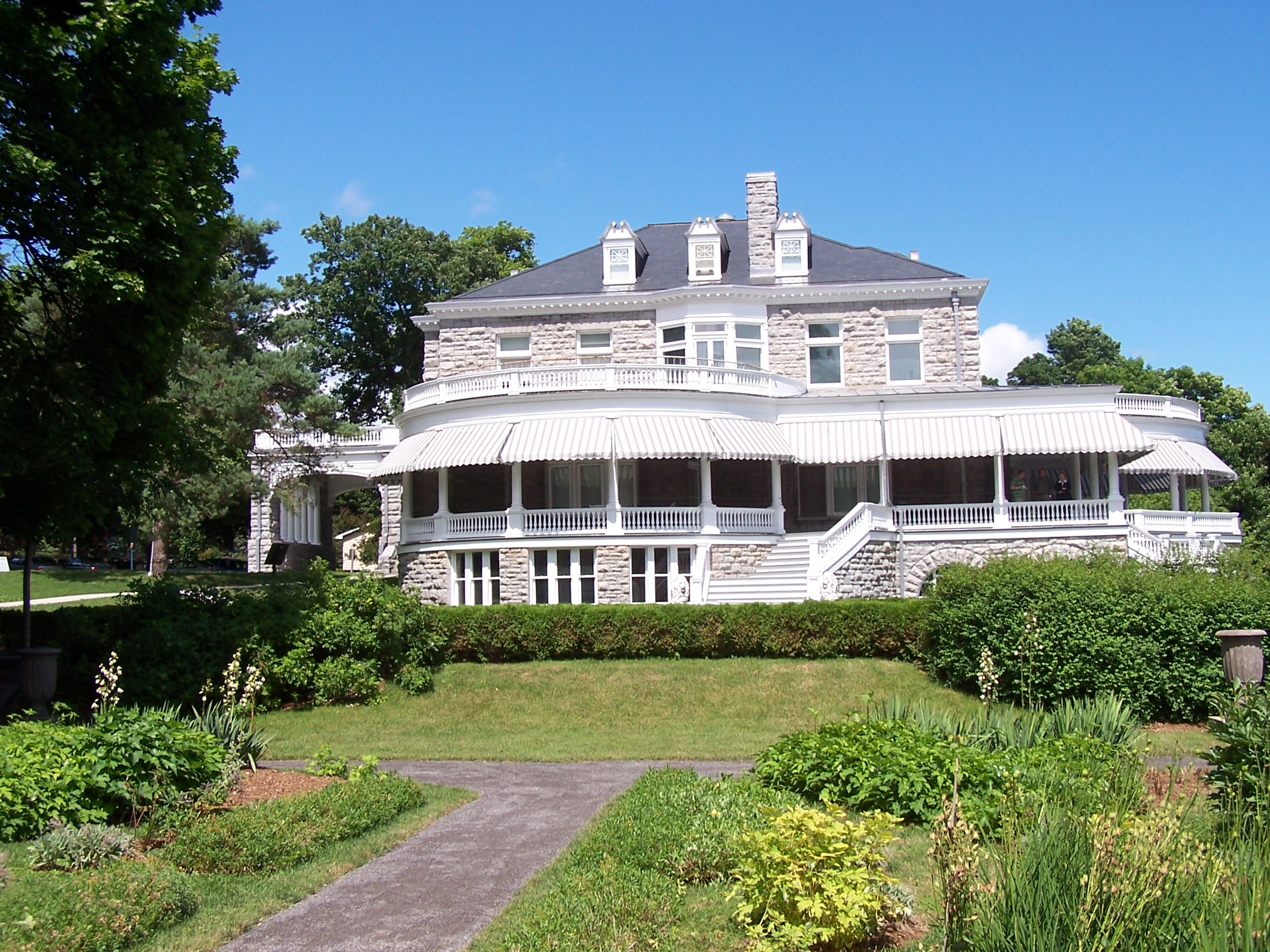 The west facade of Fulford Place, in Brockville, Ontario.